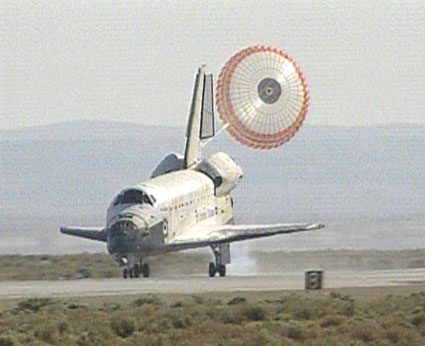 Atlantis Landing at Edwards Airforce Base in California